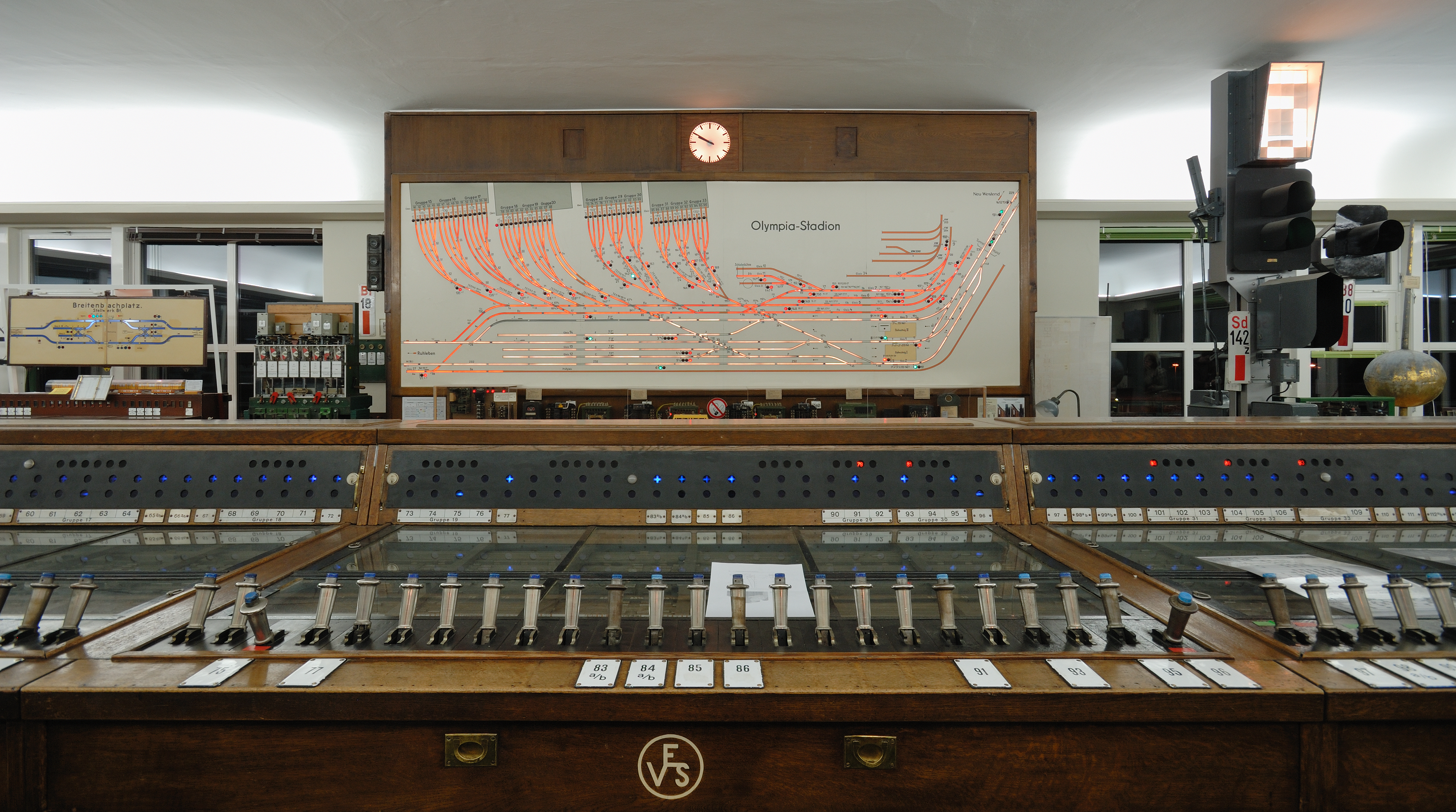 Power lever frame installation in the signal box of Berlin Olympic Stadium station. It was in service from 1931 to 1983. On the wall there is a diagram of the track and signalling layout with information on 616 tracks, 99 signals and 103 railroad switches. The room is now the center of the Berlin U-Bahn Museum.